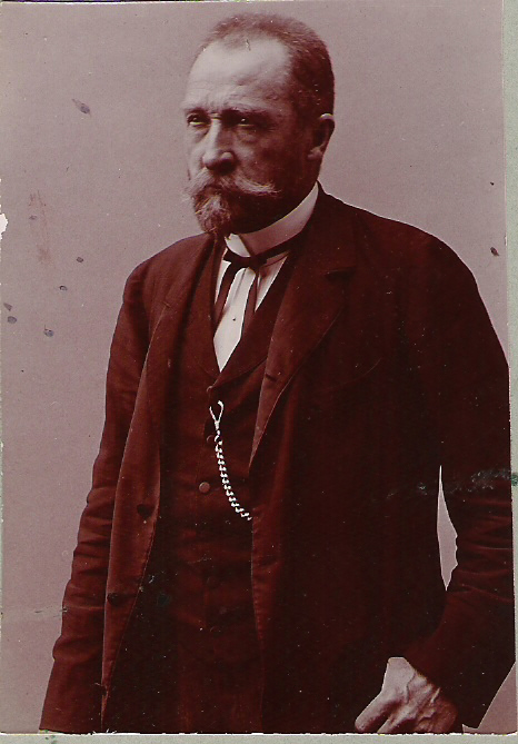 Picture of Otto von Steinbeis